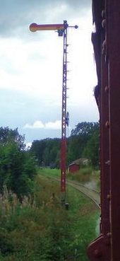 Railway signal - old swedish type - semaphore